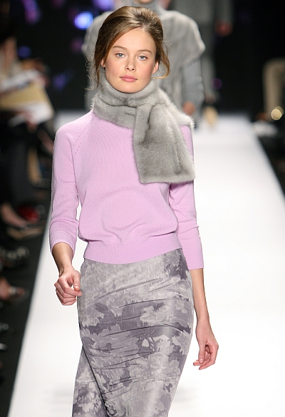 Latvian model Inguna Butane in Michael Kors Fall Collection